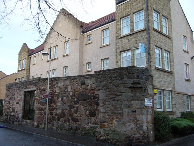 Deanery Wall, Restalrig Road South